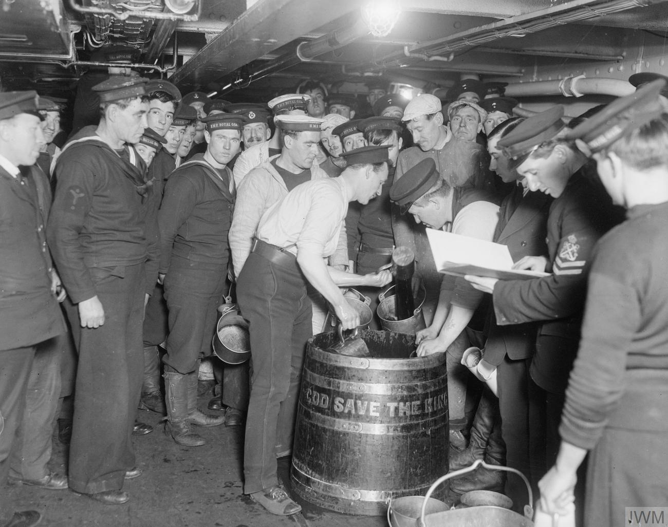 The Royal Navy during the First World War Royal Marines and bluejackets being served their rum rations on board HMS Royal Oak.